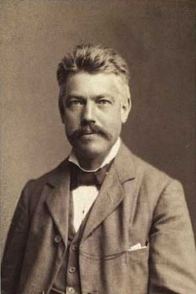 Christian Harald Lauritz Peter Emil Bohr (1855-1911), Danish physician, father of Harald and Niels Bohr